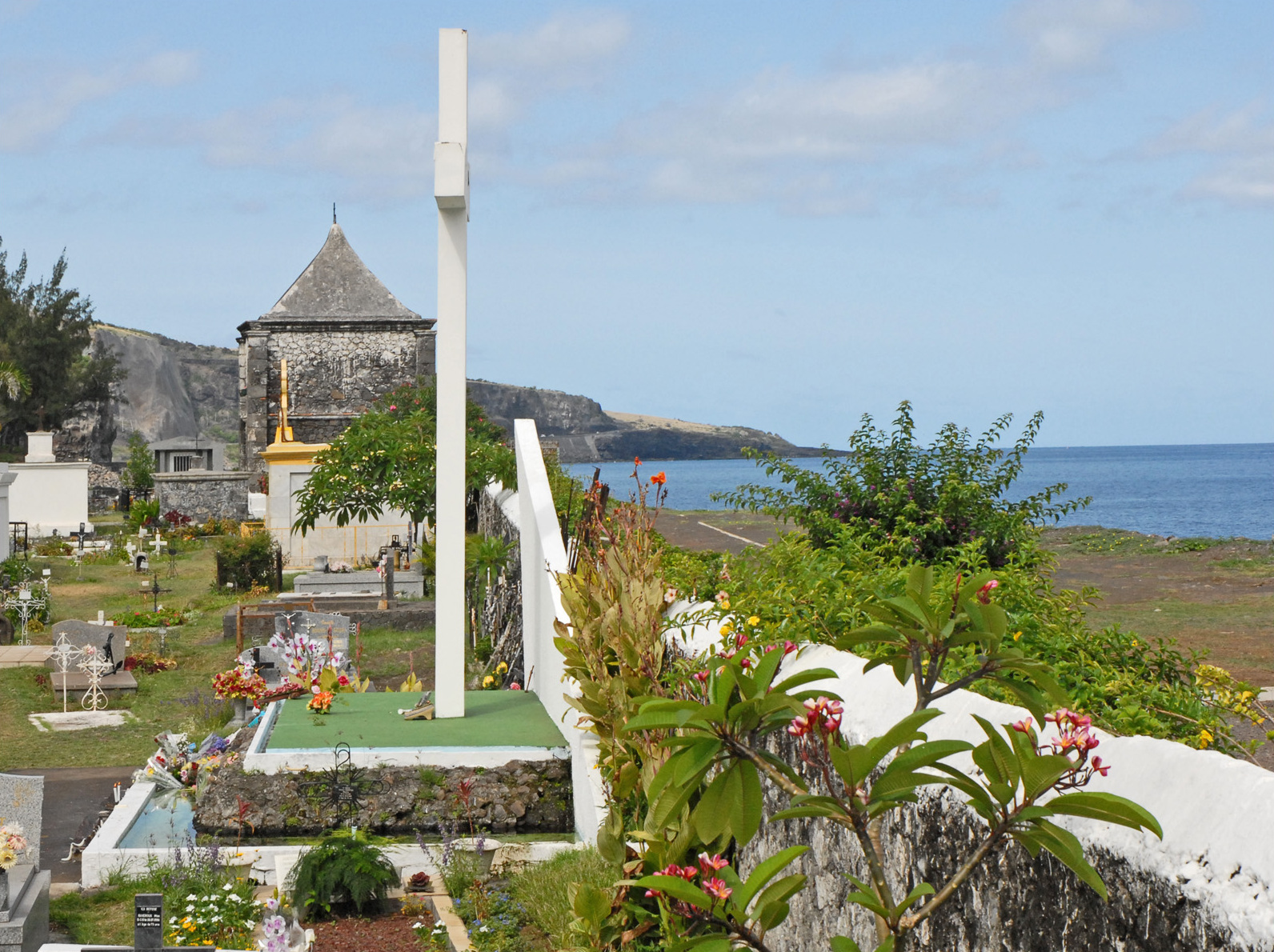 The Marine Cemetery of Saint-Paul (Réunion Island)